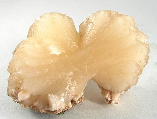 Stilbite-Ca Locality: Jalgaon District, Maharashtra, India (Locality at ) Size: 9.4 x 6.1 x 4.1 cm. A shimmering, light salmon-hued "bowtie" of stilbite, complete and undamaged, with a bit of matrix acting as a natural base.